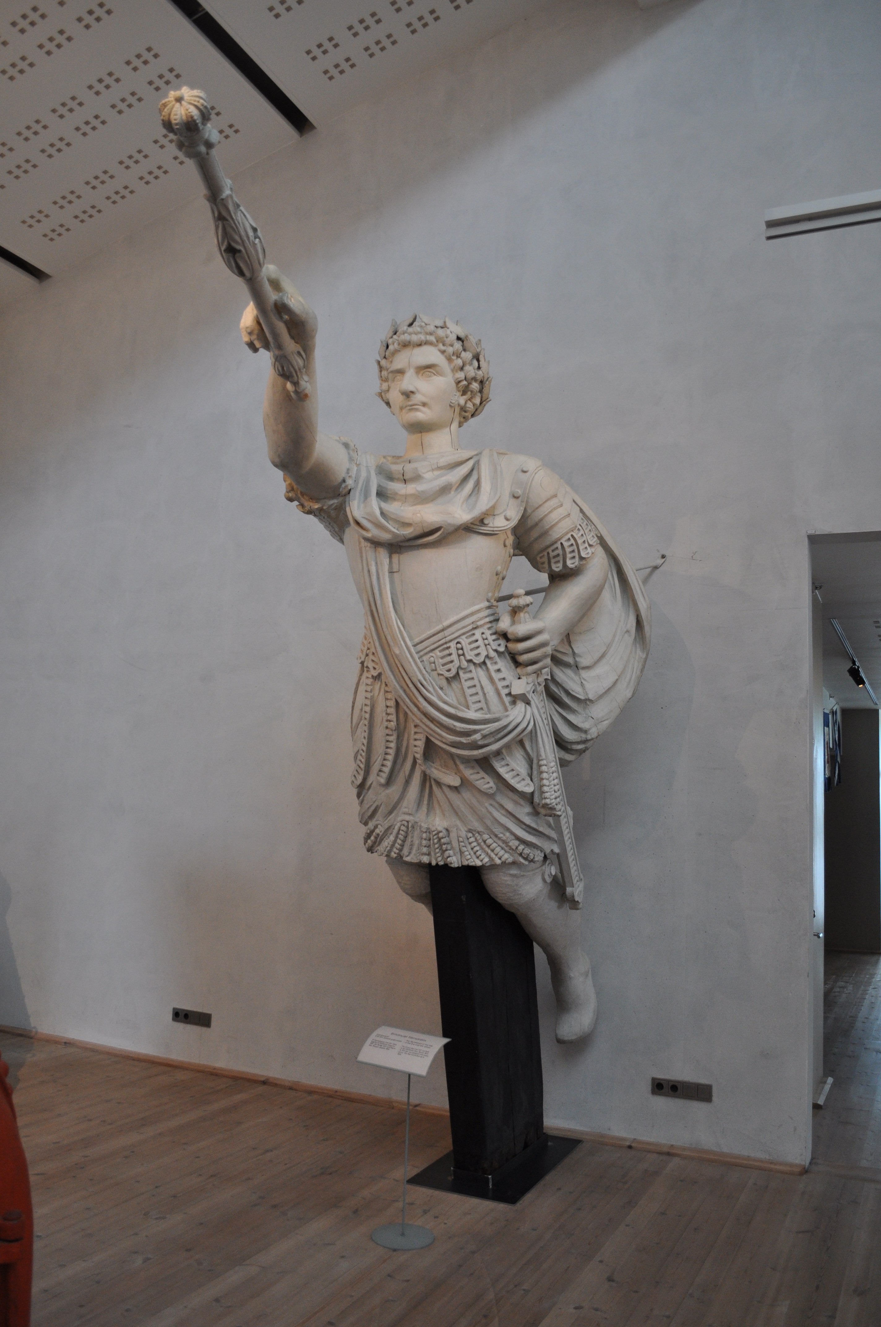 Figurehead Carl XIV made by Emanuel Törnström for the 85 gunship of the line Carl XIV Johan (1824) . Marinmuseum Karlskrona, Sweden